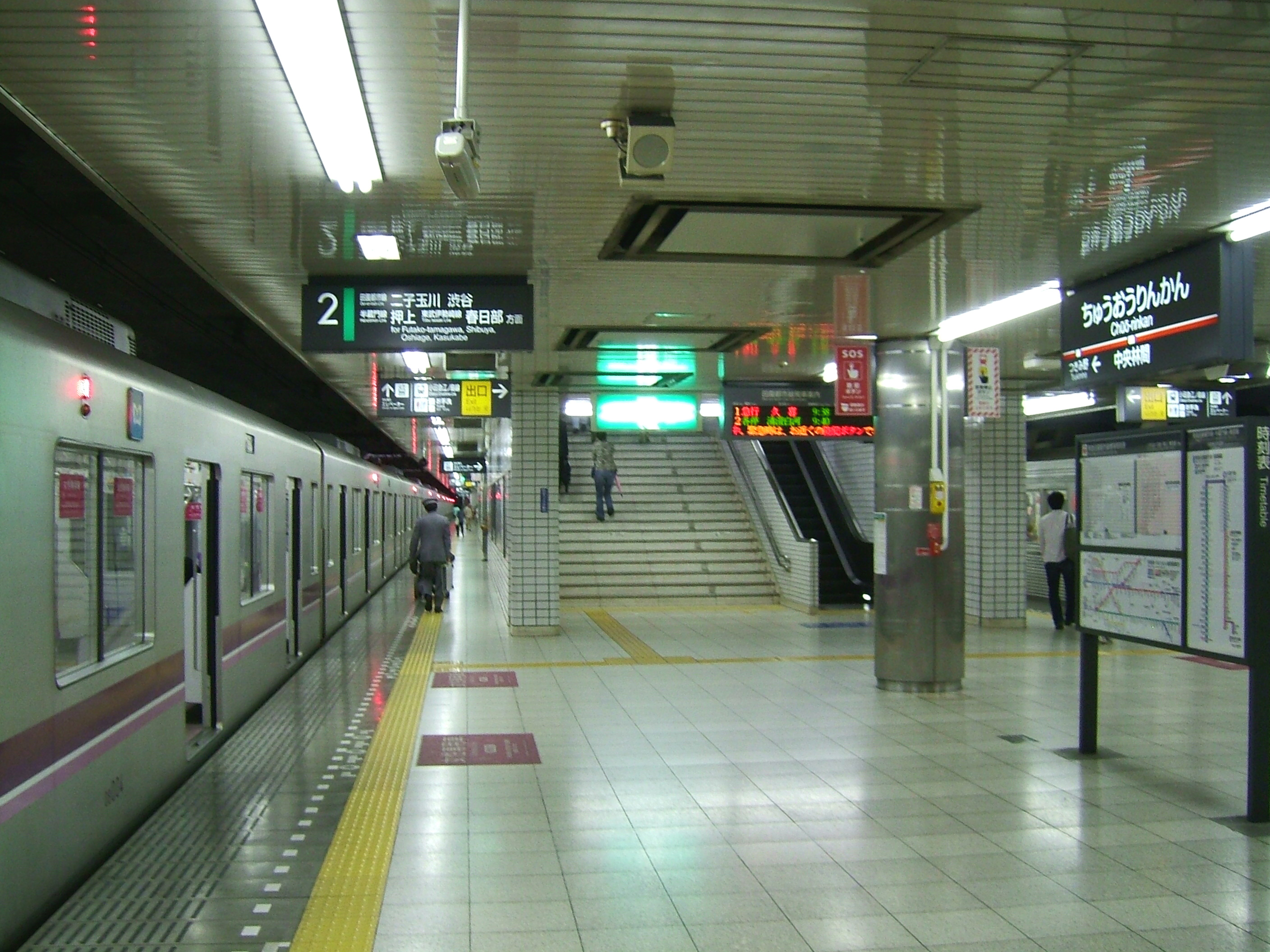 Chūō-Rinkan Station platform (Tōkyū Den-en-toshi Line)